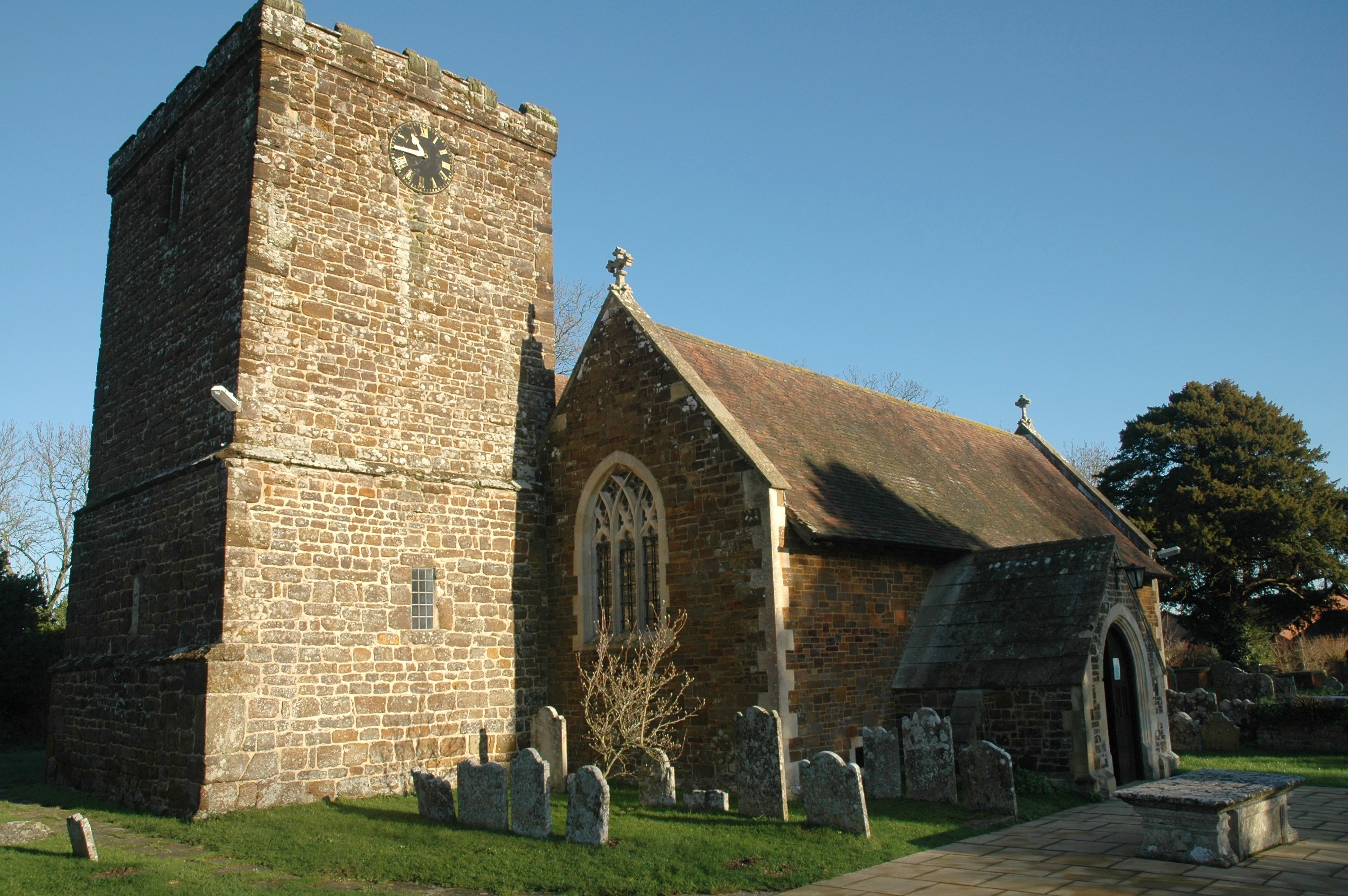 St Andrews church Kinson, Bournemouth, England. 16 December 2006.